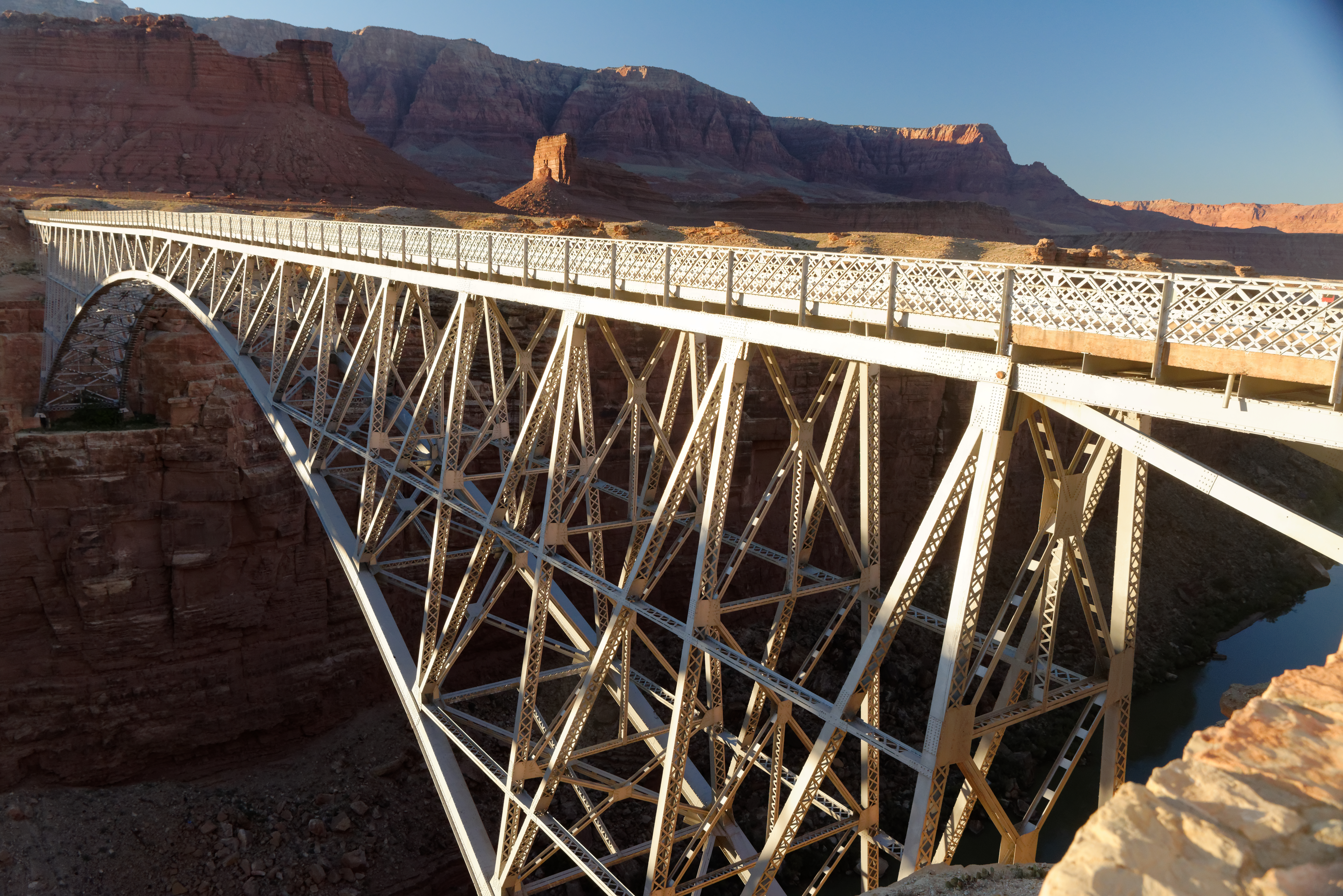 Navajo Steel Arch Highway Bridge, Coconino County, Arizona